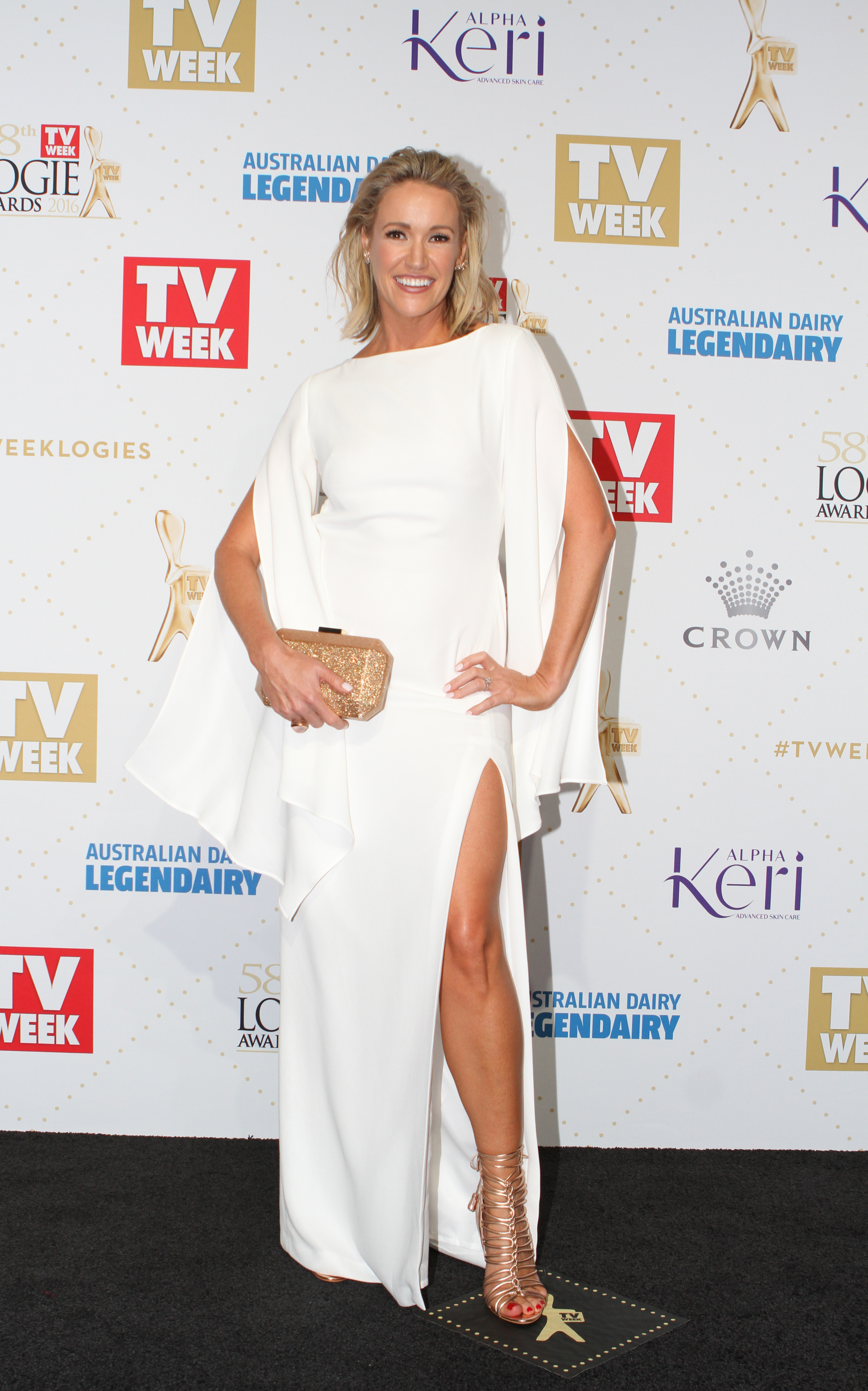 Leila McKinnon arrives at the 2016 TV Week Logie Awards